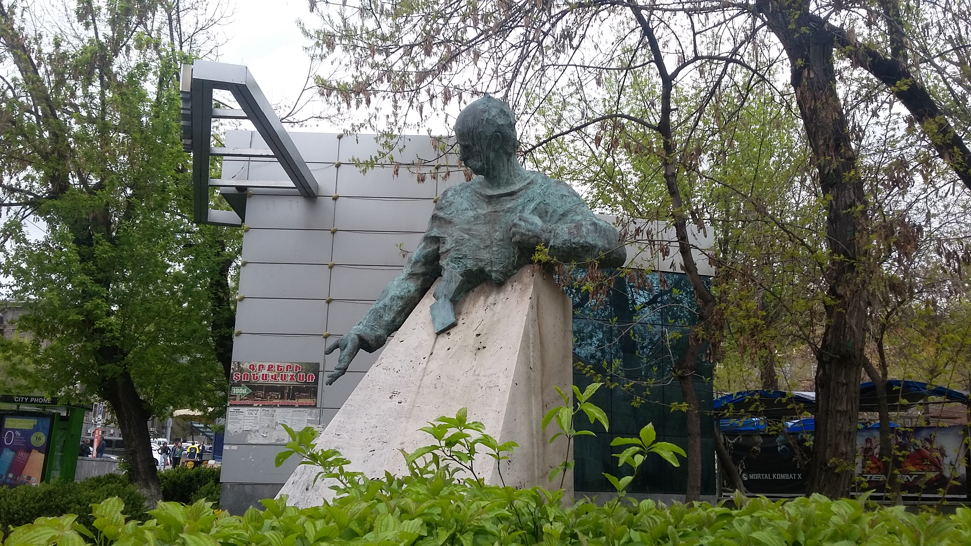 Bust of Fridtjof Nansen, Yerevan